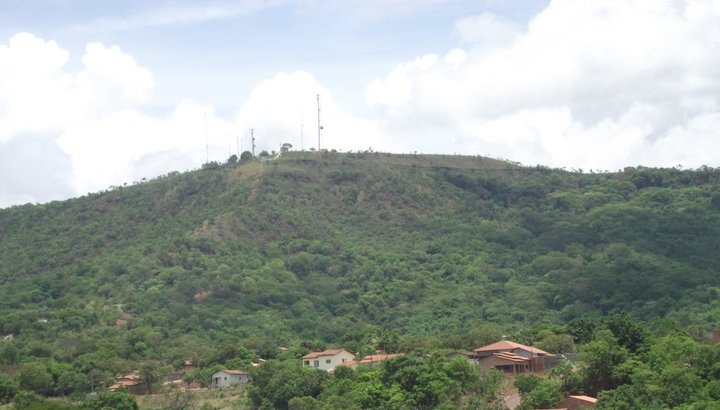 Serra do Estrondo